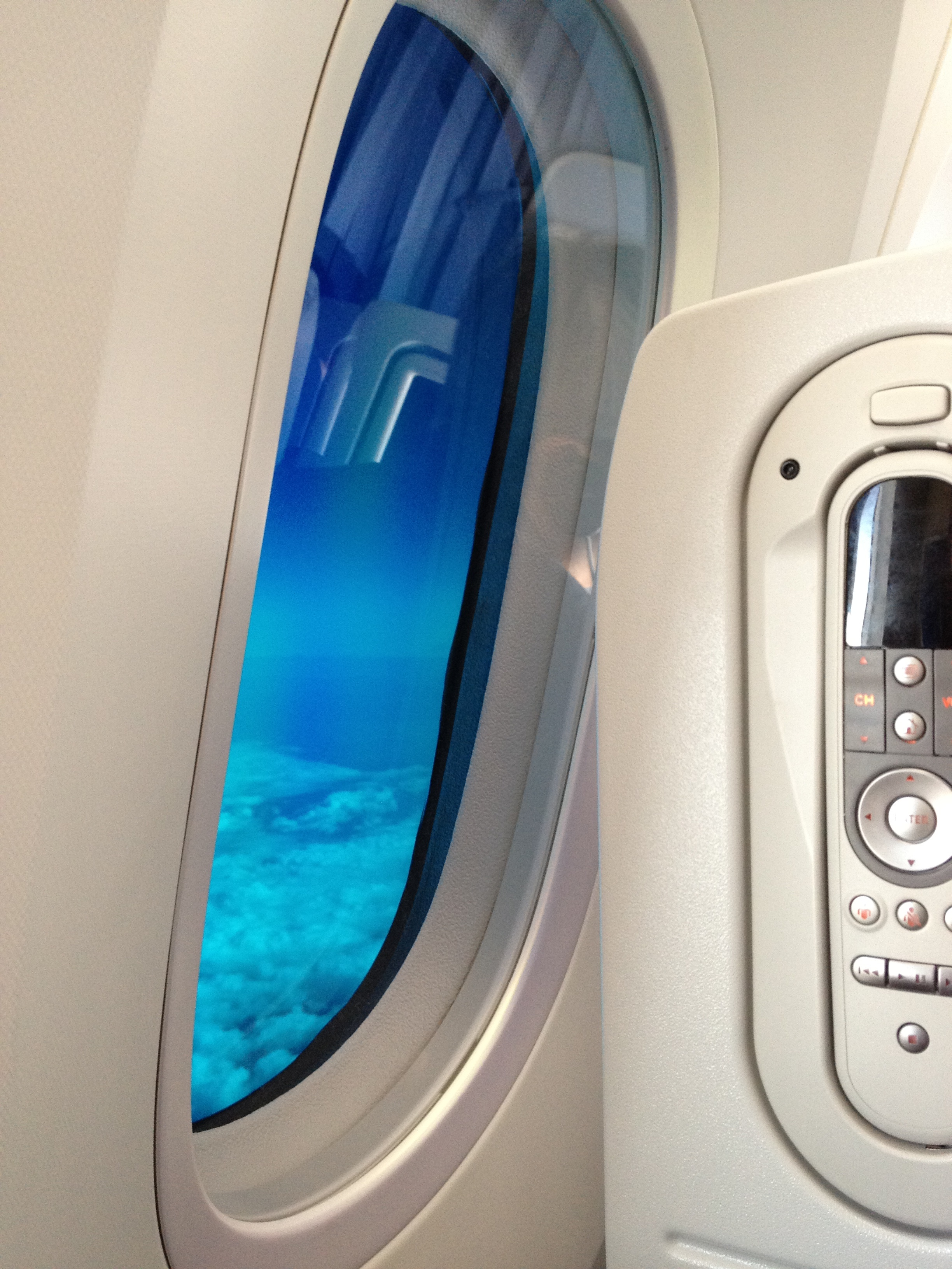 19 inches tall window with electrochromism tinting system, ANA Boeing 787-8 Dreamliner